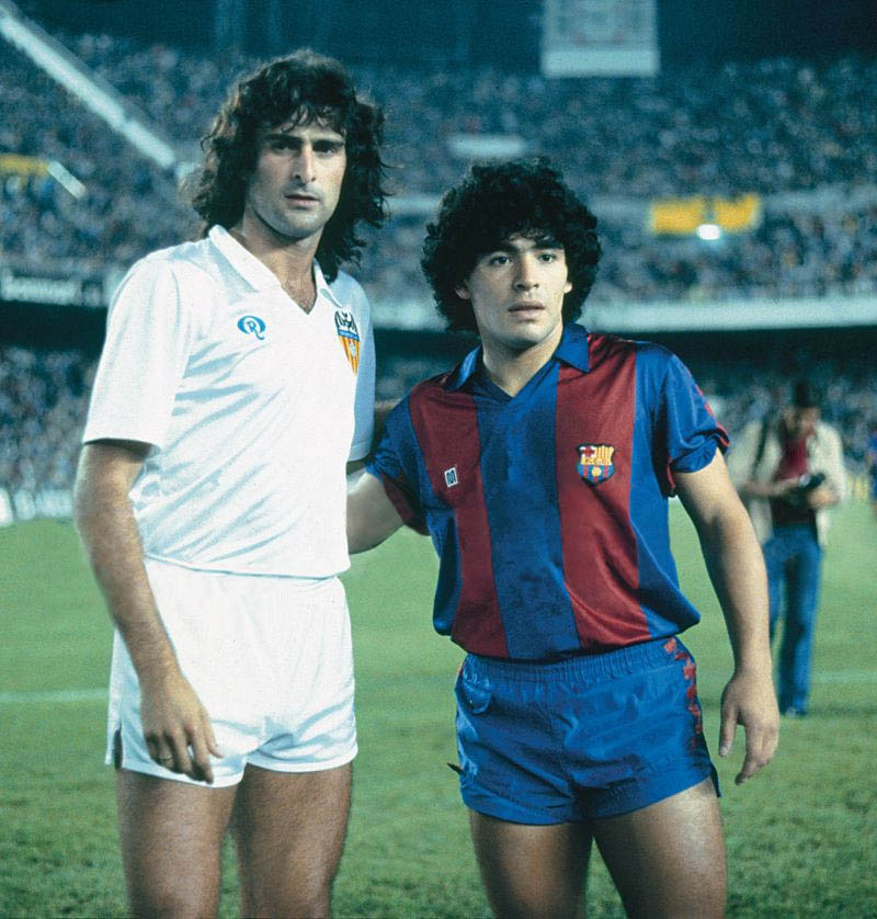 Diego Maradona and Mario Kempes, playing for FC Barcelona and Valencia CF, respectively.